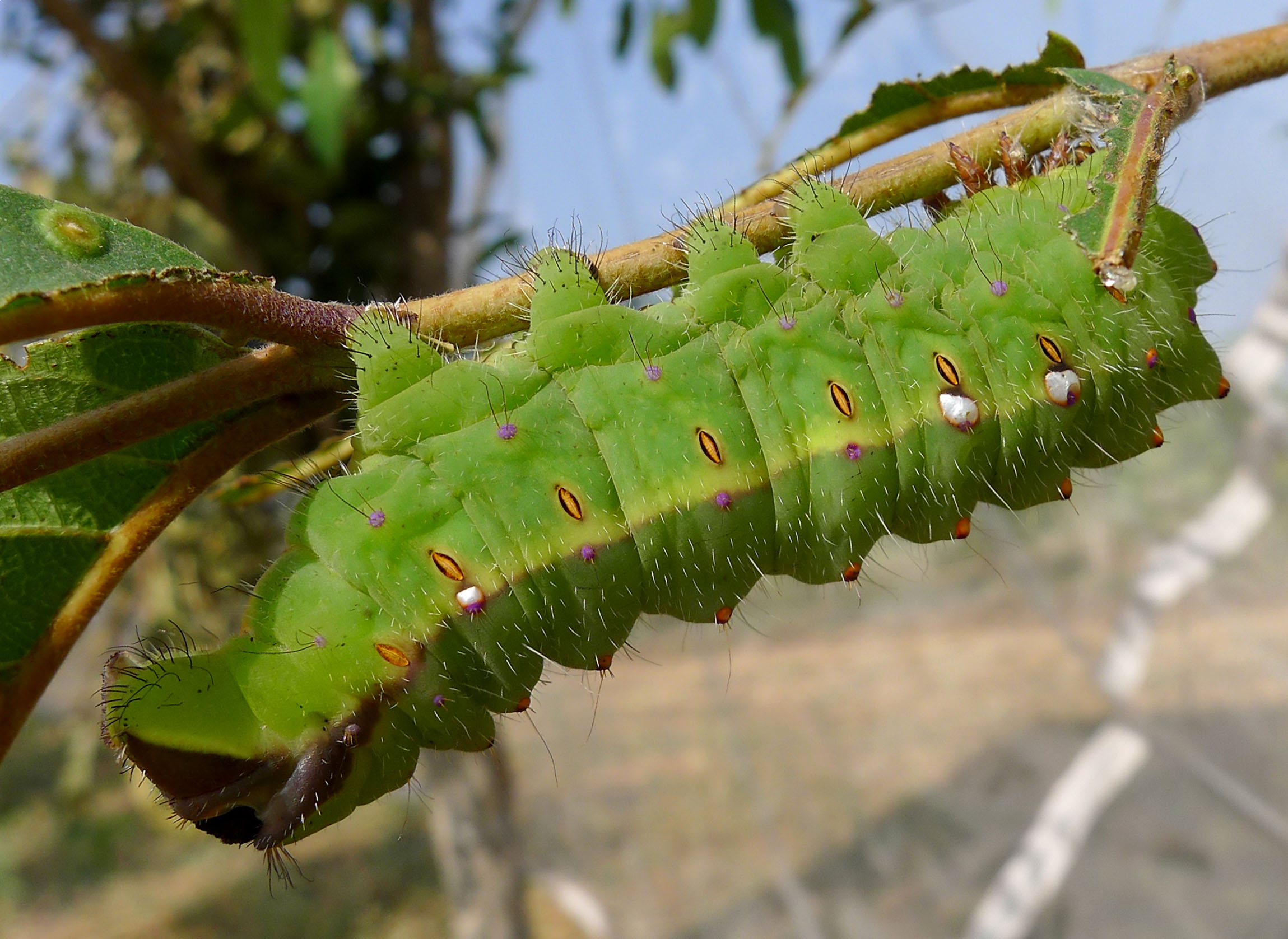 Tussar Silk Moth Caterpillar. Antheraea mylitta